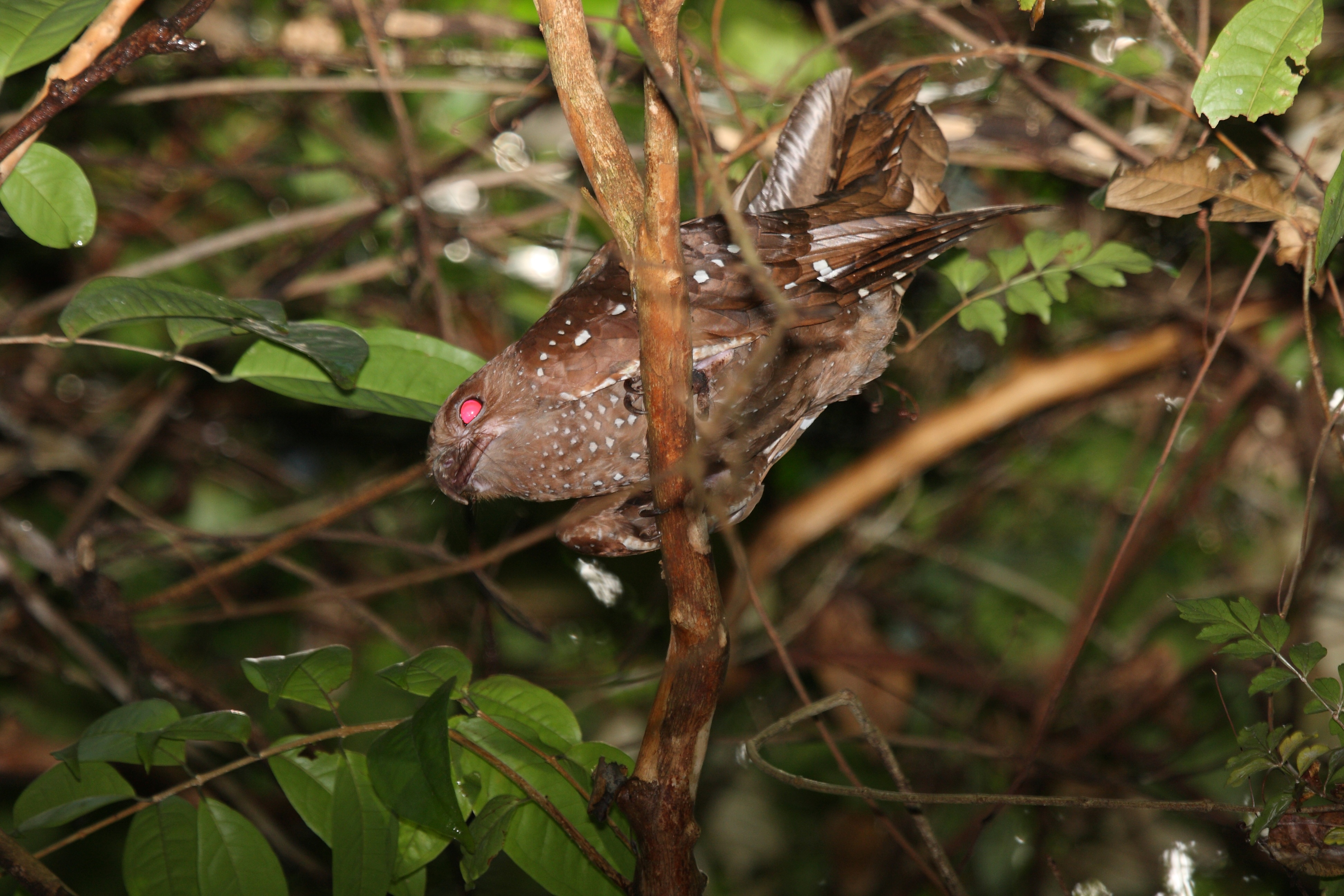 Oilbird (Steatornis caripensis)